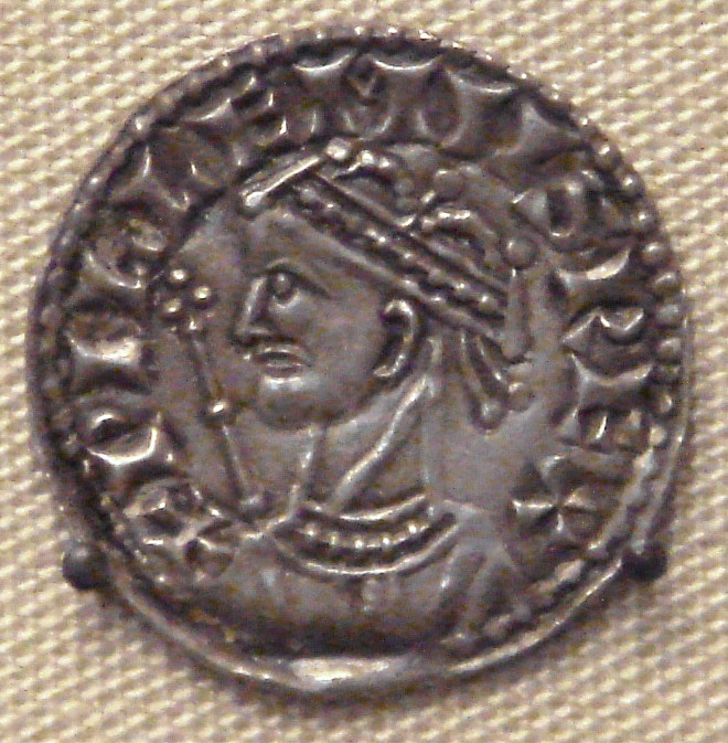 Coin of William_the_Conqueror_1066_1087